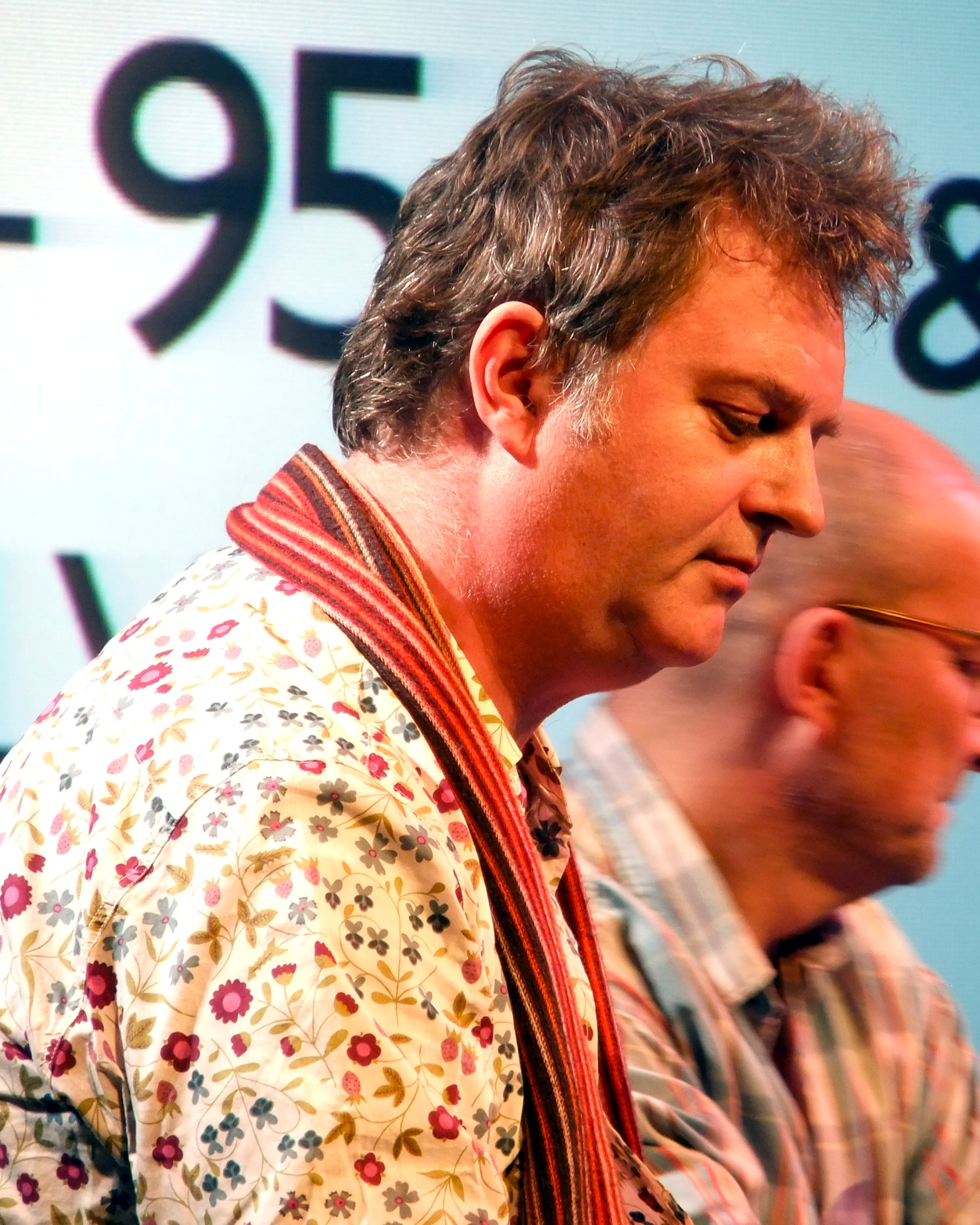 Paul Merton (levels adjusted, cropped)